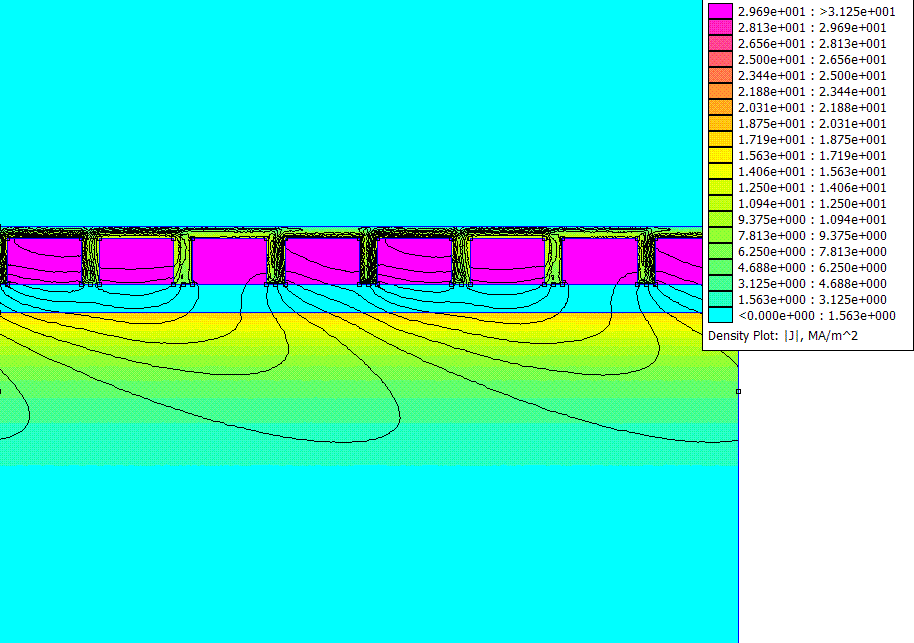 The field and current intensity generated by a linear motor in a thick block of aluminium